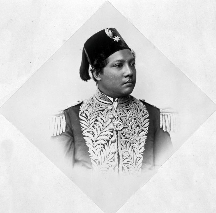 Studio portrait of the Sultan of Siak